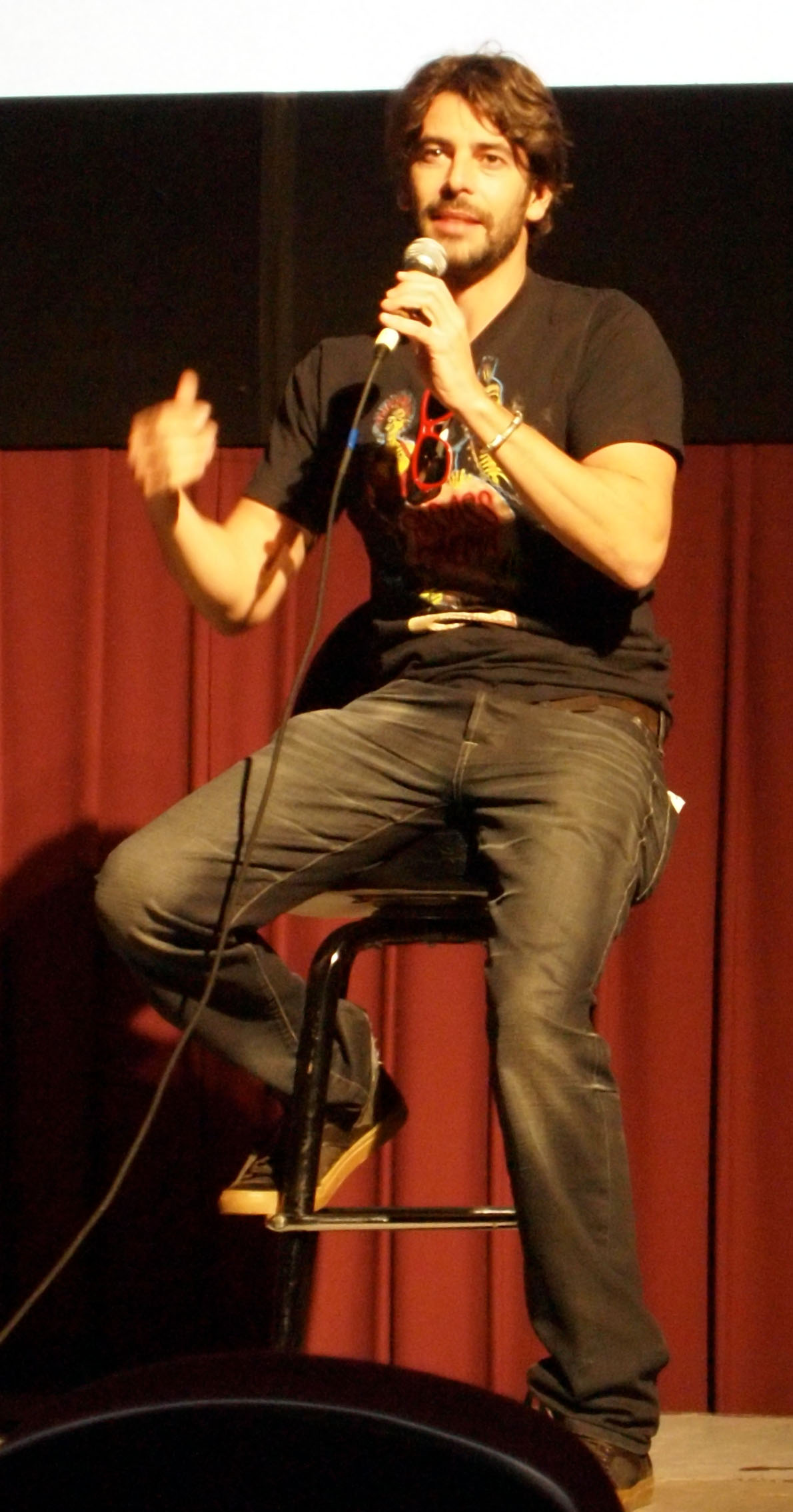 Actor Eduardo Noriega presenting his film Agnosia.